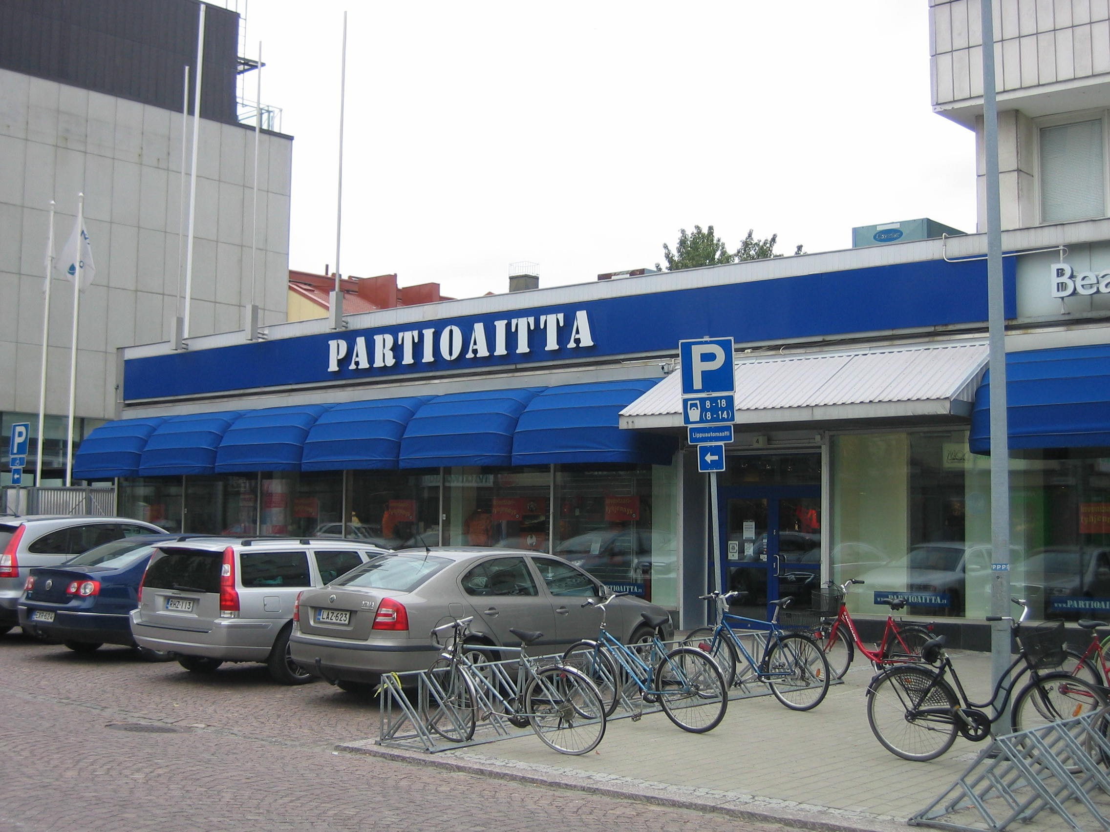 The "Partioaitta" outdoor store in Oulu, Finland.